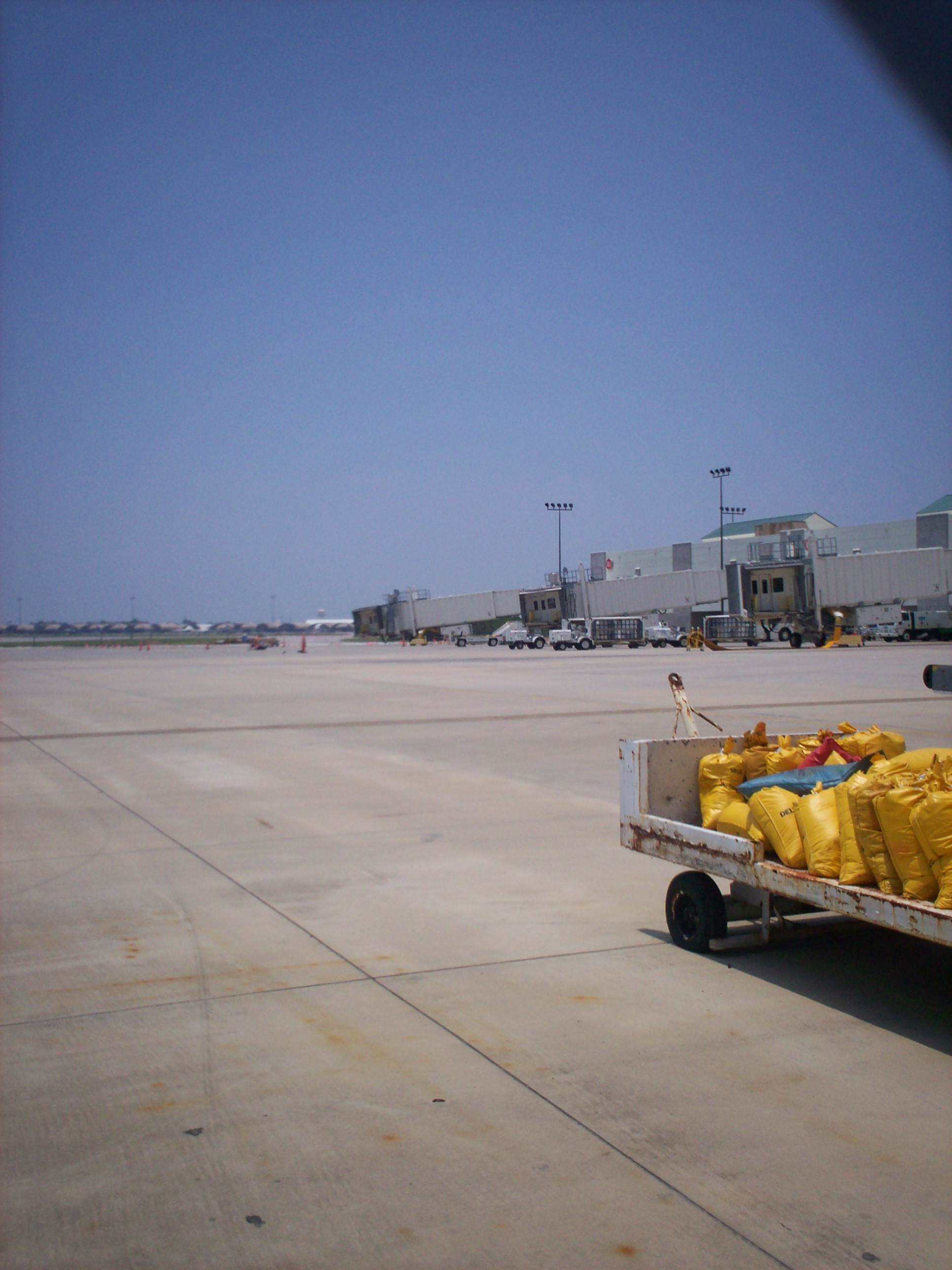 The "B" Gates at Okaloosa Regional Airport.